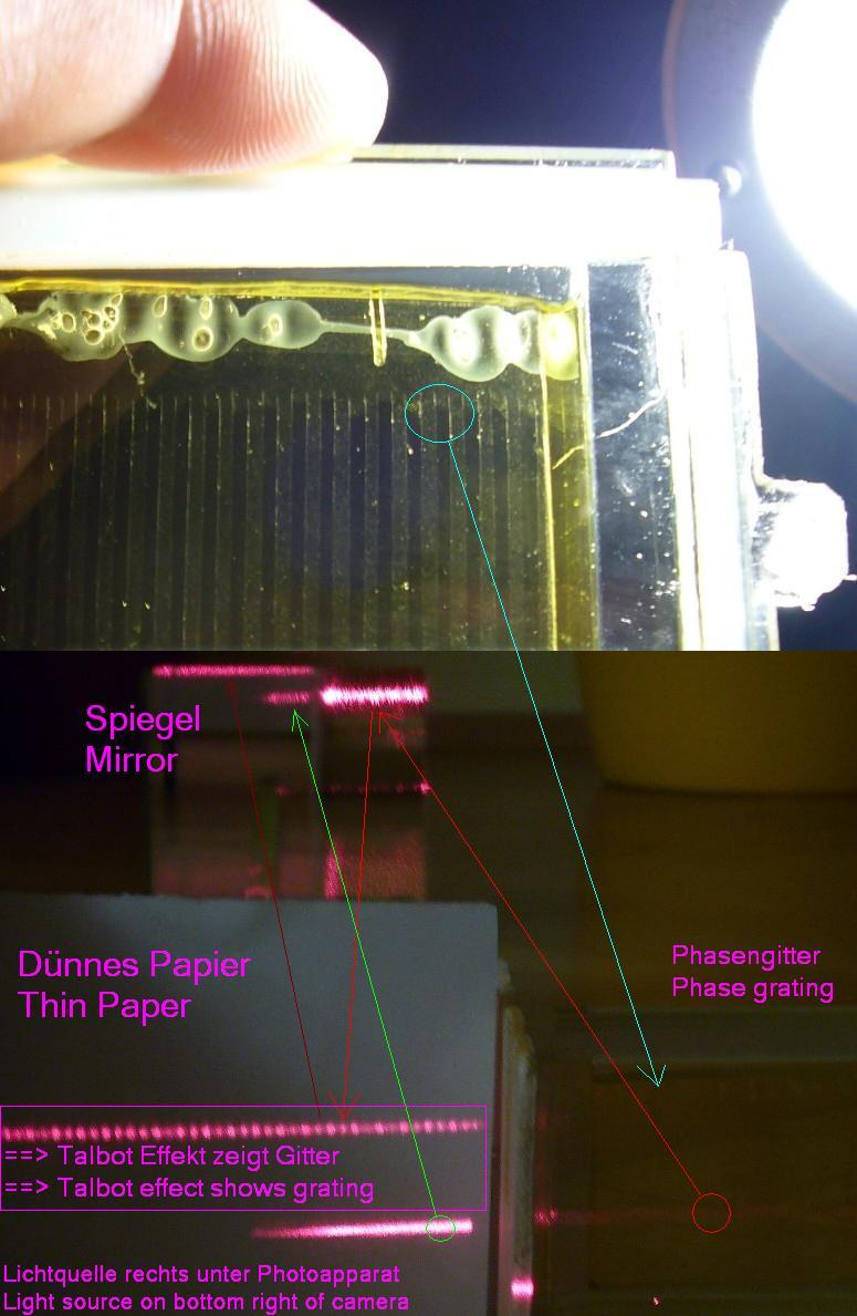 Top: Home-made phase grating, period = 2mm. Between two glass plates, two plastic foils with vertical slits (1mm each) are placed in line oil. Line oil and plastic foild do have about the same index of refraction, so light gets delayed by about half a wavelength even plastic thickness is 2x20µm or so. Bottom: Talbot effect using above grating shows a replication of grating structure. Distance to light source is 1.5m (d*d/\lambda/4), distance to mirror is 0.75m (d*d/\lammbda/8). Mirror degrates image quality strongly, but allows to display it on same image. On the right hand side in the background there is a flowerpot :-)